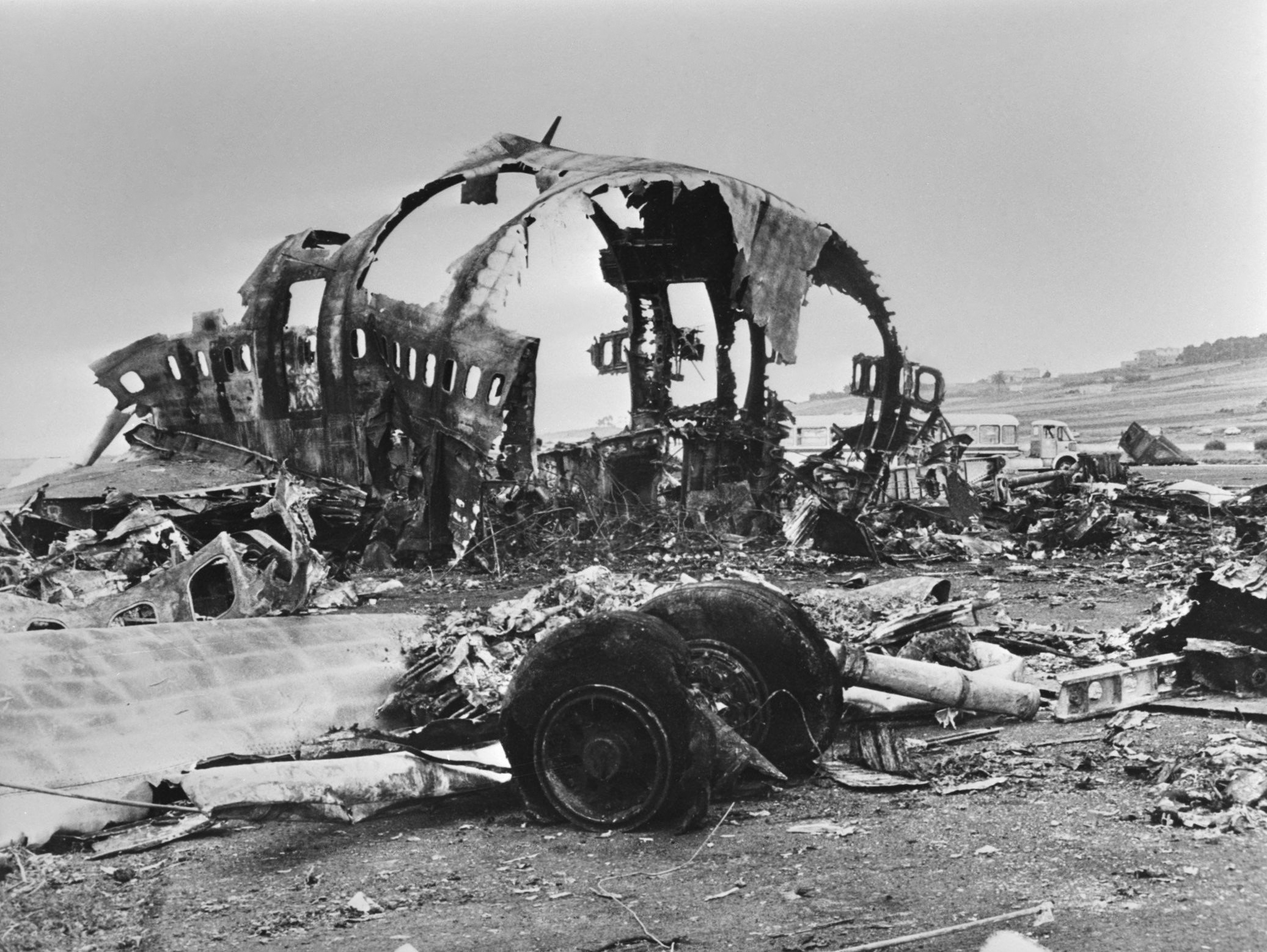 Wreckage on the runway of Los Rodeos after the Tenerife airport disaster of March 27, 1977